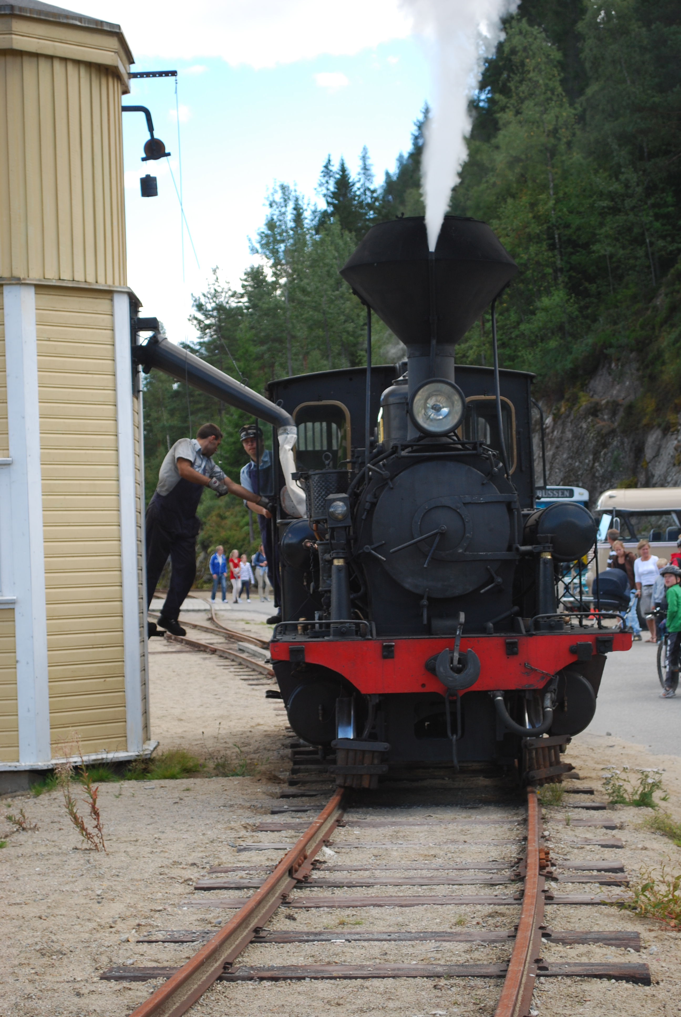 NSB Class XXI steam locomotive at Røyknes